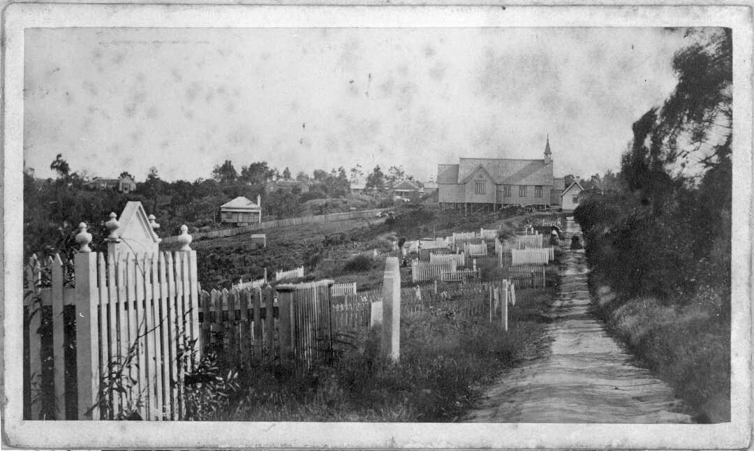 National Library of NZ Record Title: St Sepulchre's Church, Symonds Street, Auckland Tiaki IRN: 444482 Tiaki Reference Number: 1/2-105464-F Collection: PAColl-8549: Gilberd, Edward Browse, 1904-1991 :Photographs of Auckland Coverage: 1865